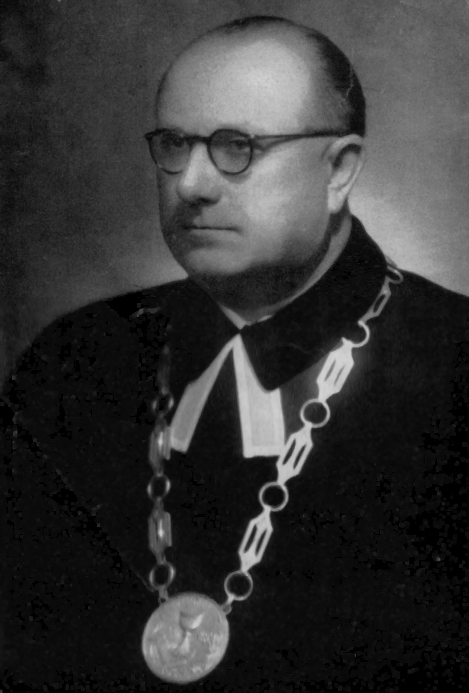 ThDr. Viktor Hájek